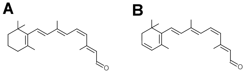 Retinaldehyde chromophores A. 11-cis-retinal (vitamin A1 aldehyde) B. 3-dehydroretinal (vitamin A2 aldehyde)